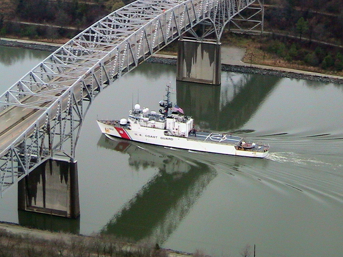 ATLANTIC CITY, N.J. - Coast Guard Cutter Legare transits the Chesapeake and Delaware Canal, Tuesday, Nov. 25, 2008. The Legare is one of six 270-foot cutters home ported in Portsmouth, Va. (U.S. Coast Guard photo/Chief Petty Officer Chris Kluyber)